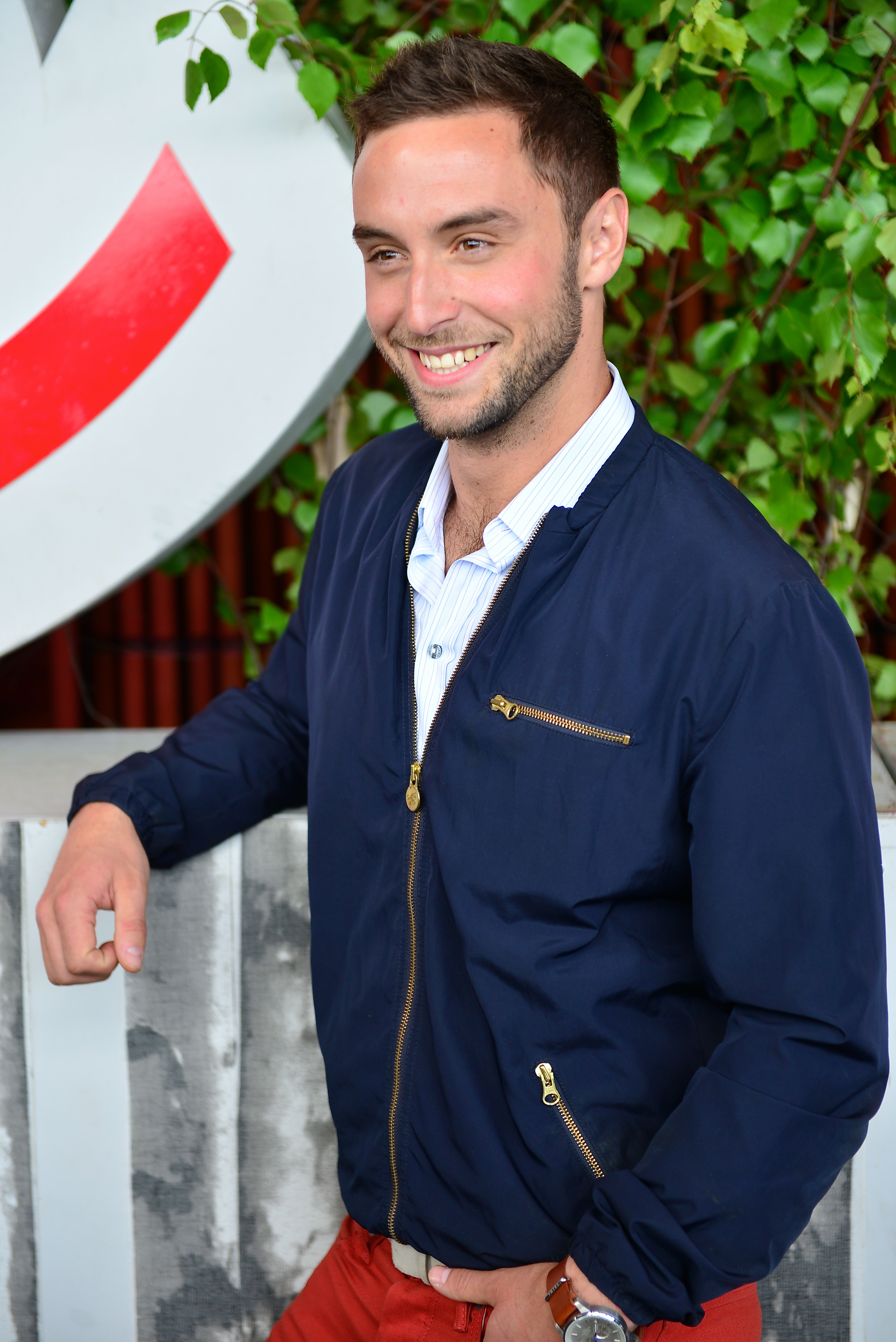 Måns Zelmerlöw during the presentation of this year's artists in "Allsång på Skansen" on June 11, 2013.